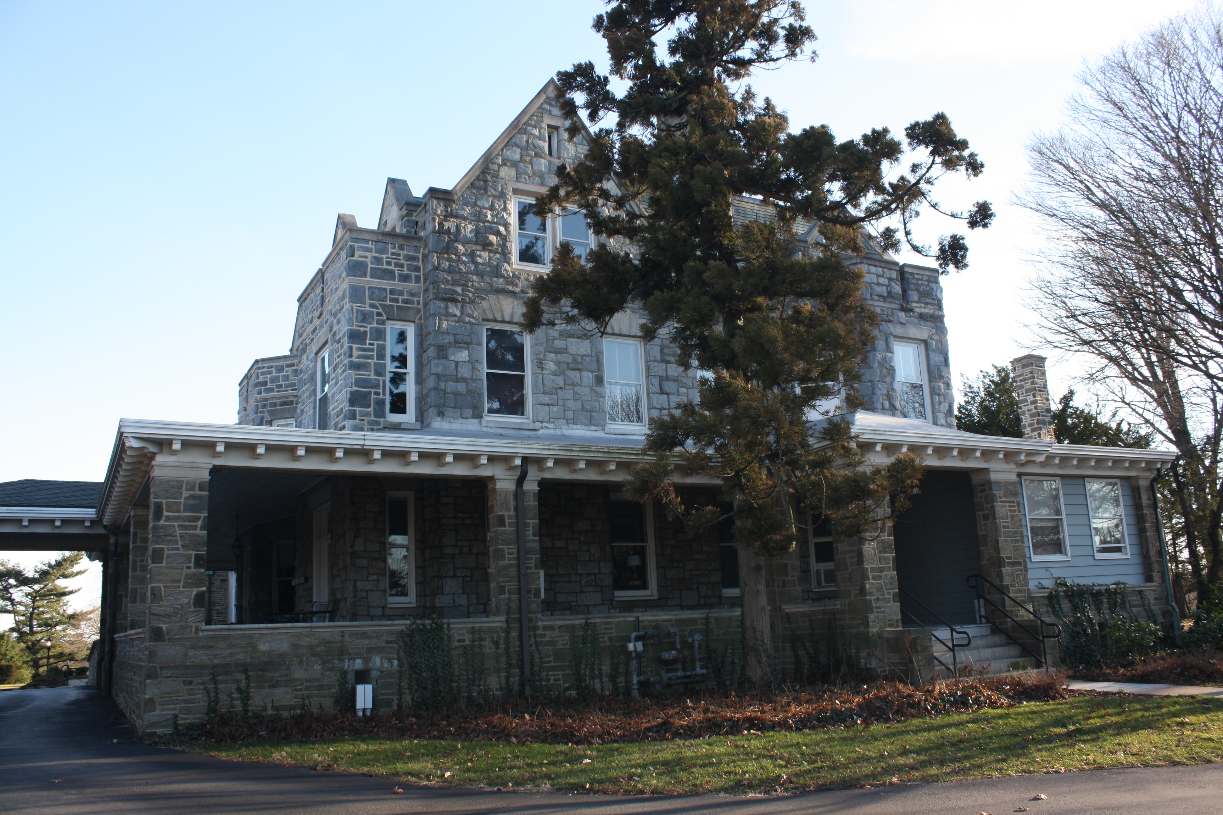 Westminster Theological Seminary, Philadelphia campus, Glenside. The J. Gresham Machen Memorial Hall includes the administrative offices as well as dormitory and kitchen facilities for unmarried students.